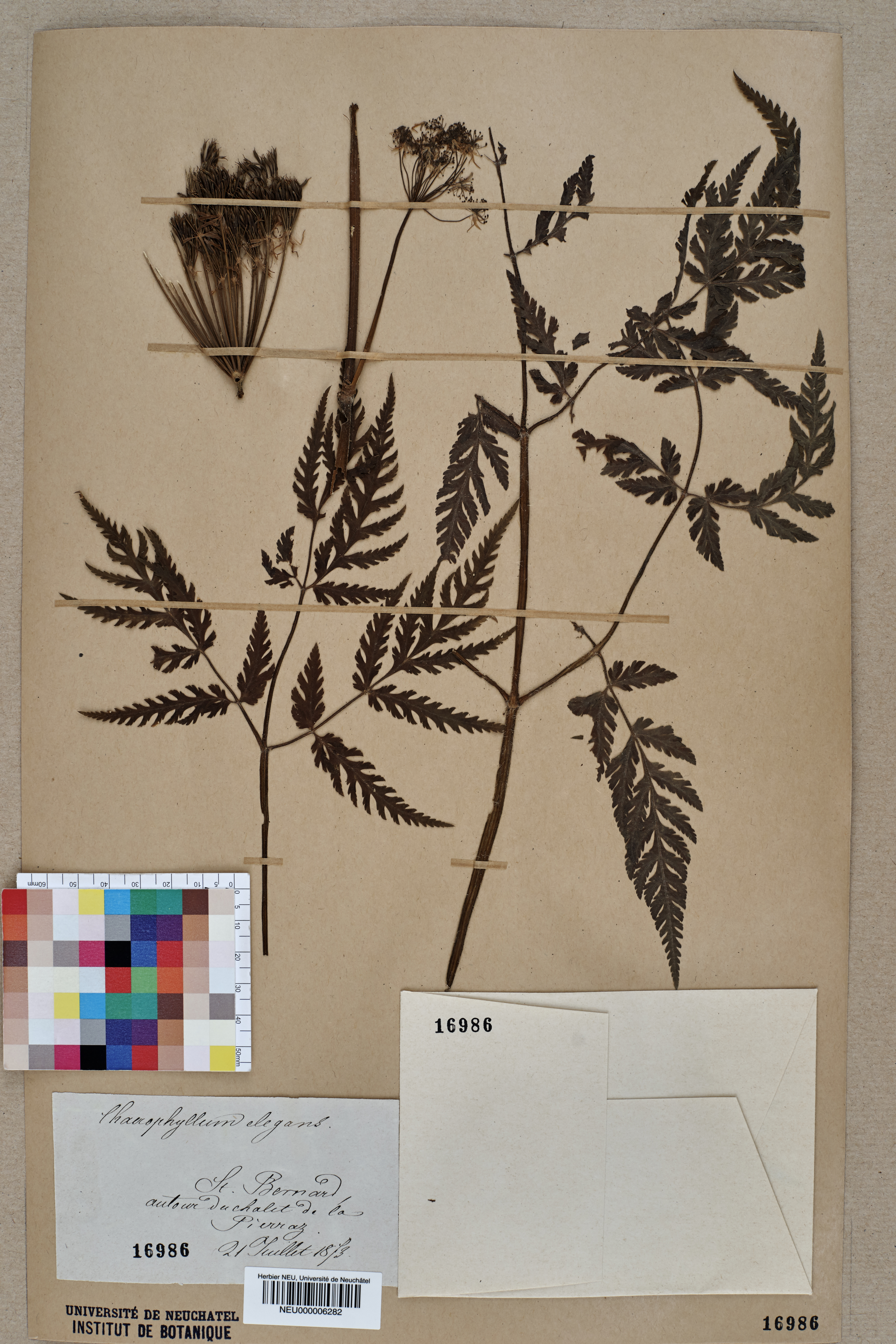 Dried pressed specimen of Chaerophyllum elegans